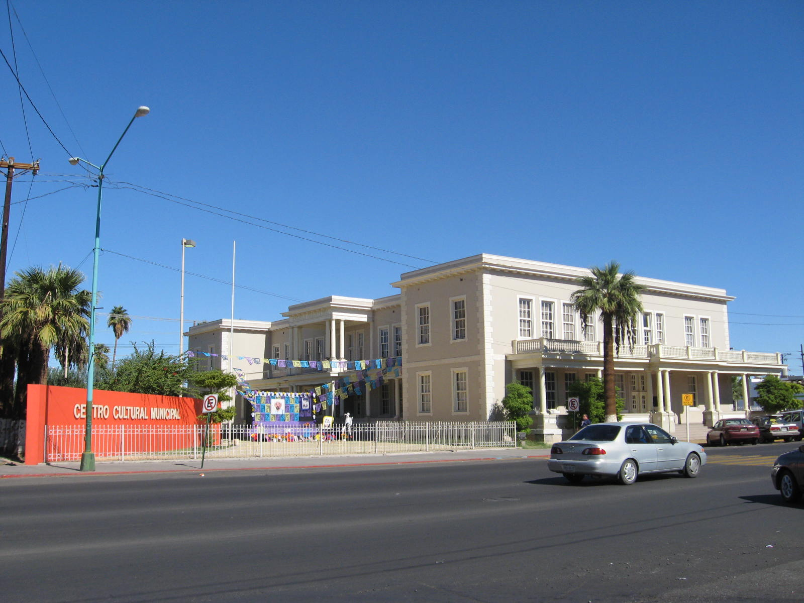 The "House of Culture" of the municipality of Mexicali, Baja California Mexico. The decorations are for Dia de Muertos